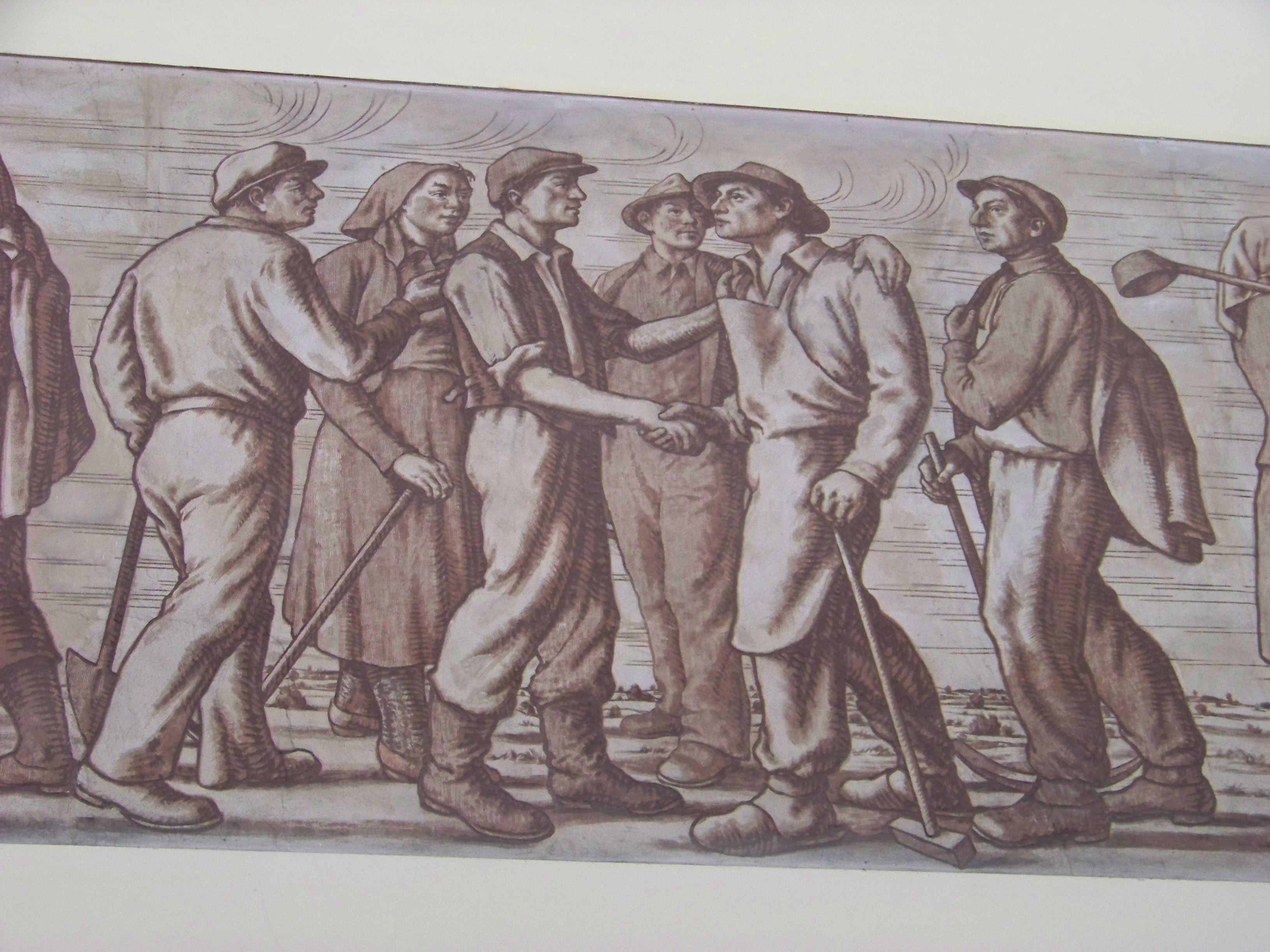 Prague-Smíchov, the Czech Republic. A sgraffito by Richard Wiesner from 1954 in the train station vestibule.